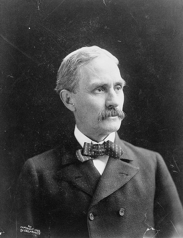 Clarence Clark, head-and-shoulders portrait, facing right